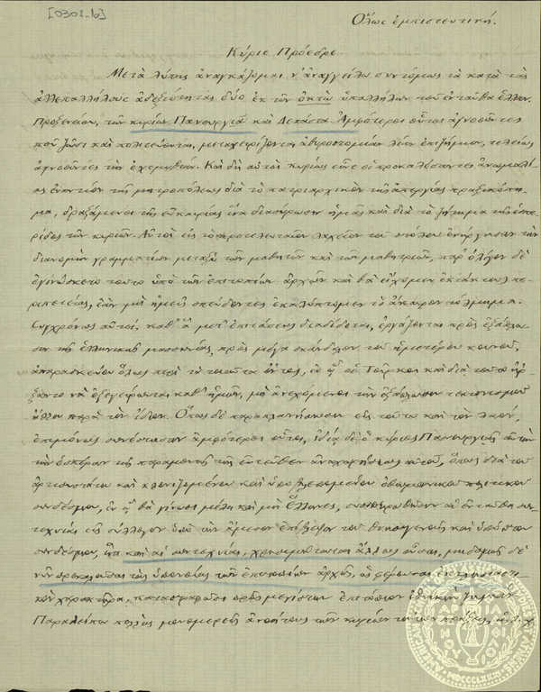 Vassilios_of_Pelagonia_Letter_to_Ion_Dragoumis